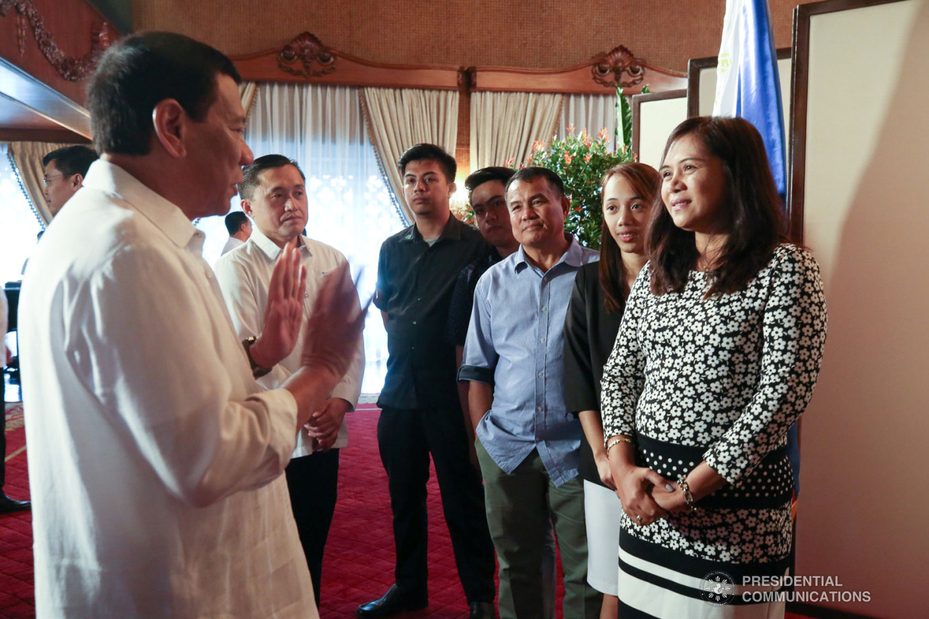 President Rodrigo Roa Duterte chats with Lispeth Francisco during a meeting at the Malacañan Palace on September 12, 2018. Francisco is the caregiver of the late Benzion Netanyahu, father of the State of Israel Prime Minister Benjamin Netanyahu.